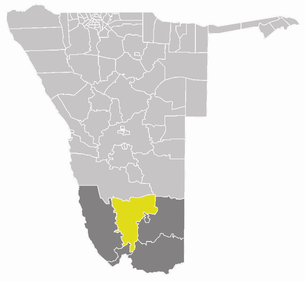 map of the Berseba constituency within the Karas region, Namibia